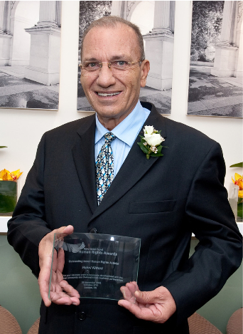 Helmi Kittani, Executive Director of the Center for Jewish - Arab Economic Development